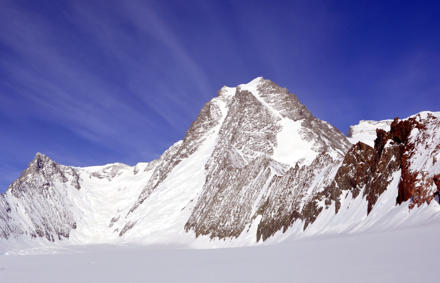 Mount Tyree (Antarctica) from East by Christian Stangl (flickr)